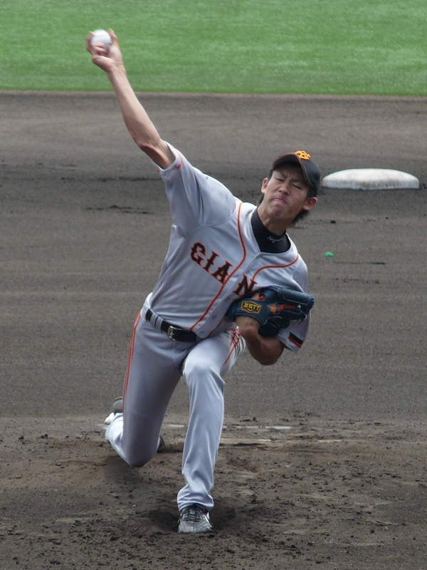 YG-Yuki-Koyama20110630